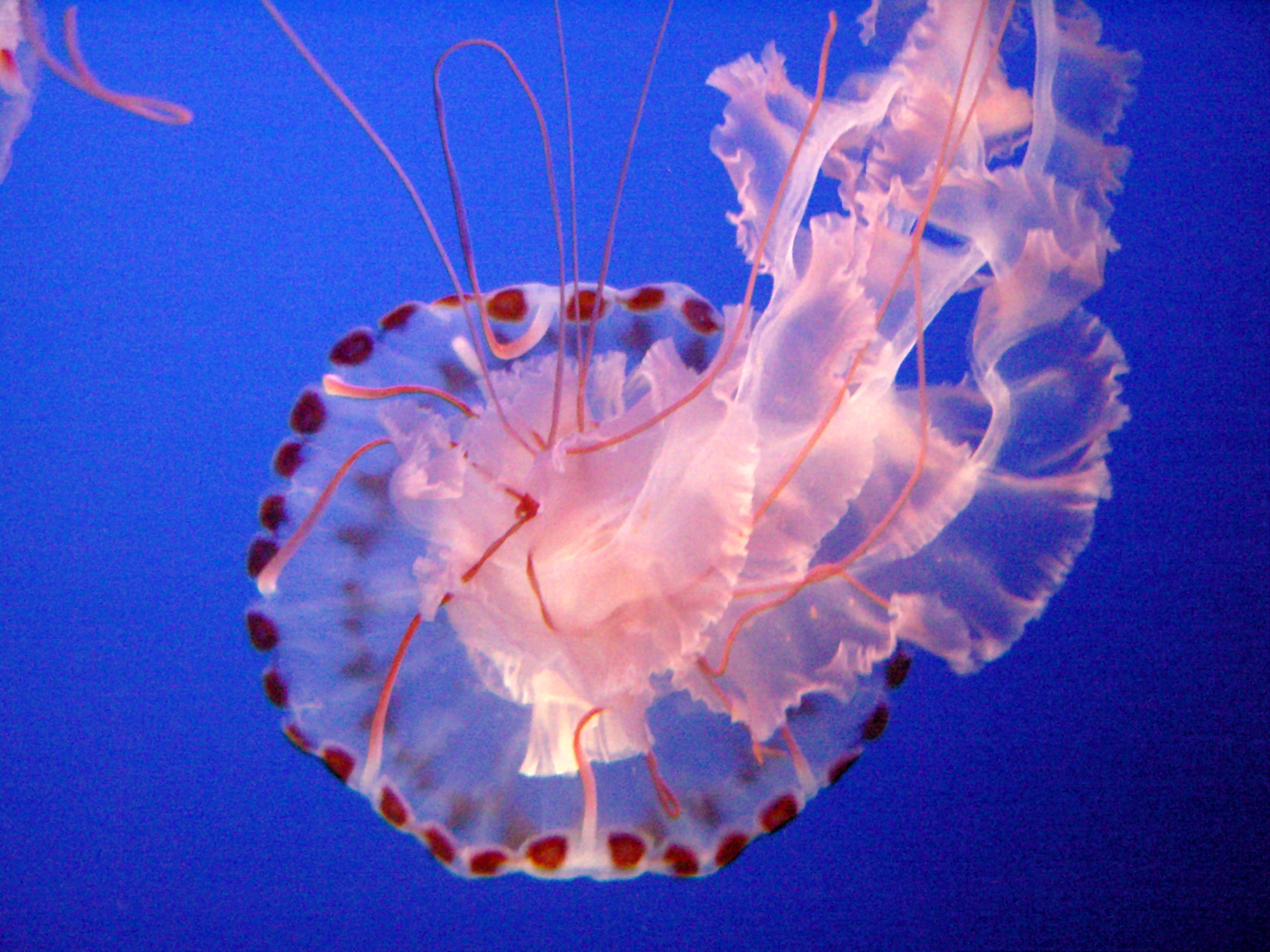 Sea Nettle Jelly, Jellyfish, Monterey Bay Aquarium, California.